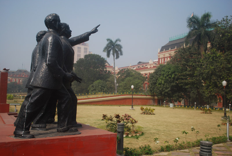 Statue of Benoy, Badal & Dinesh